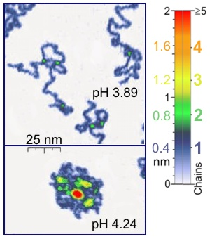 Single molecules of poly(2-vinylpyridine) recorded using an AFM operating in tapping mode under water media of different pH. Single chains are 0.4 nm thick. Molecule conformation changes drastically at a very small change of medium pH. At giving attribution, the following reference should be cited: Y. Roiter and S. Minko, AFM Single Molecule Experiments at the Solid-Liquid Interface: In Situ Conformation of Adsorbed Flexible Polyelectrolyte Chains, Journal of the American Chemical Society, vol. 127, iss. 45, pp. 15688-15689 (2005).